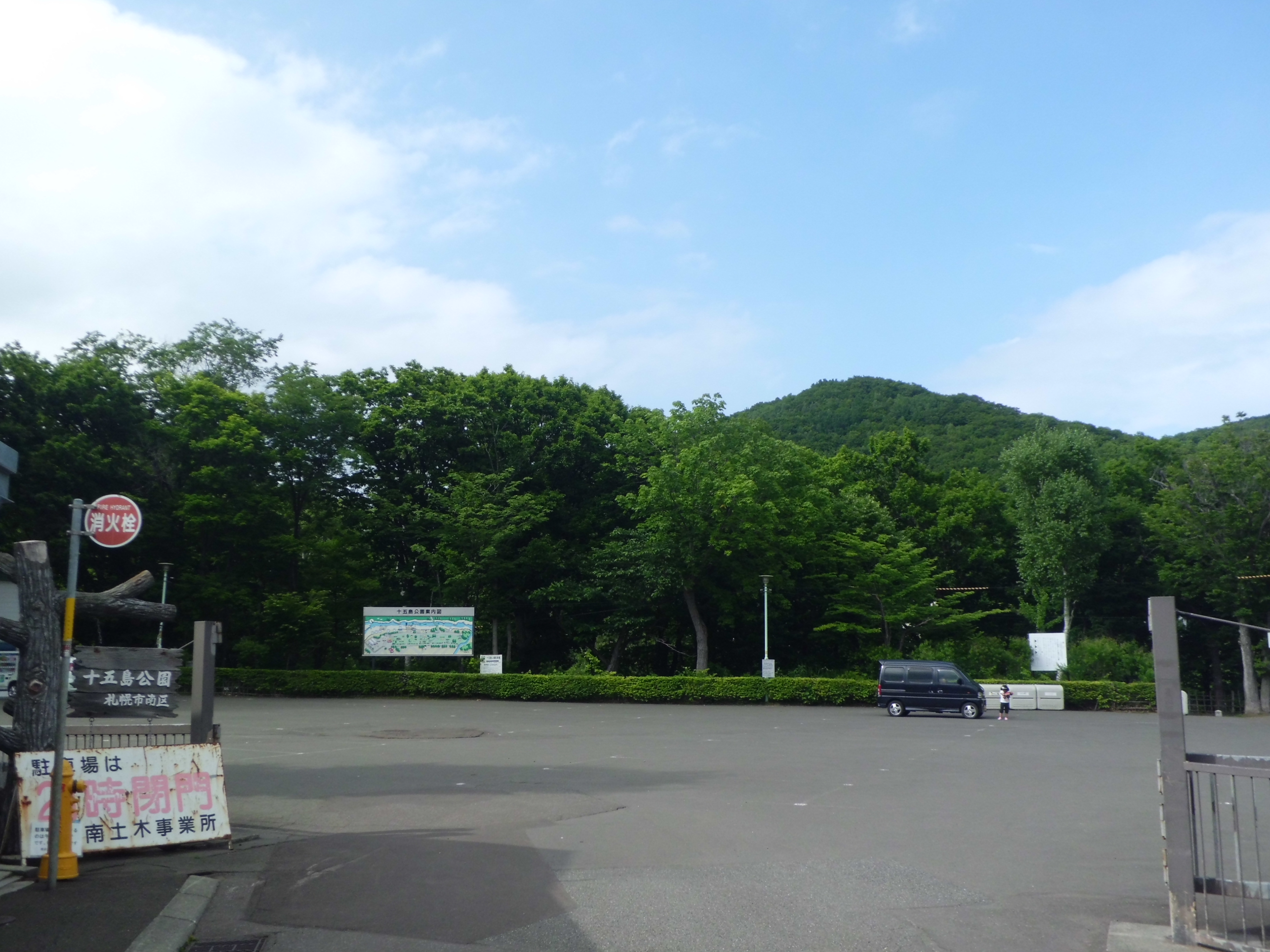 Jugoshima Park